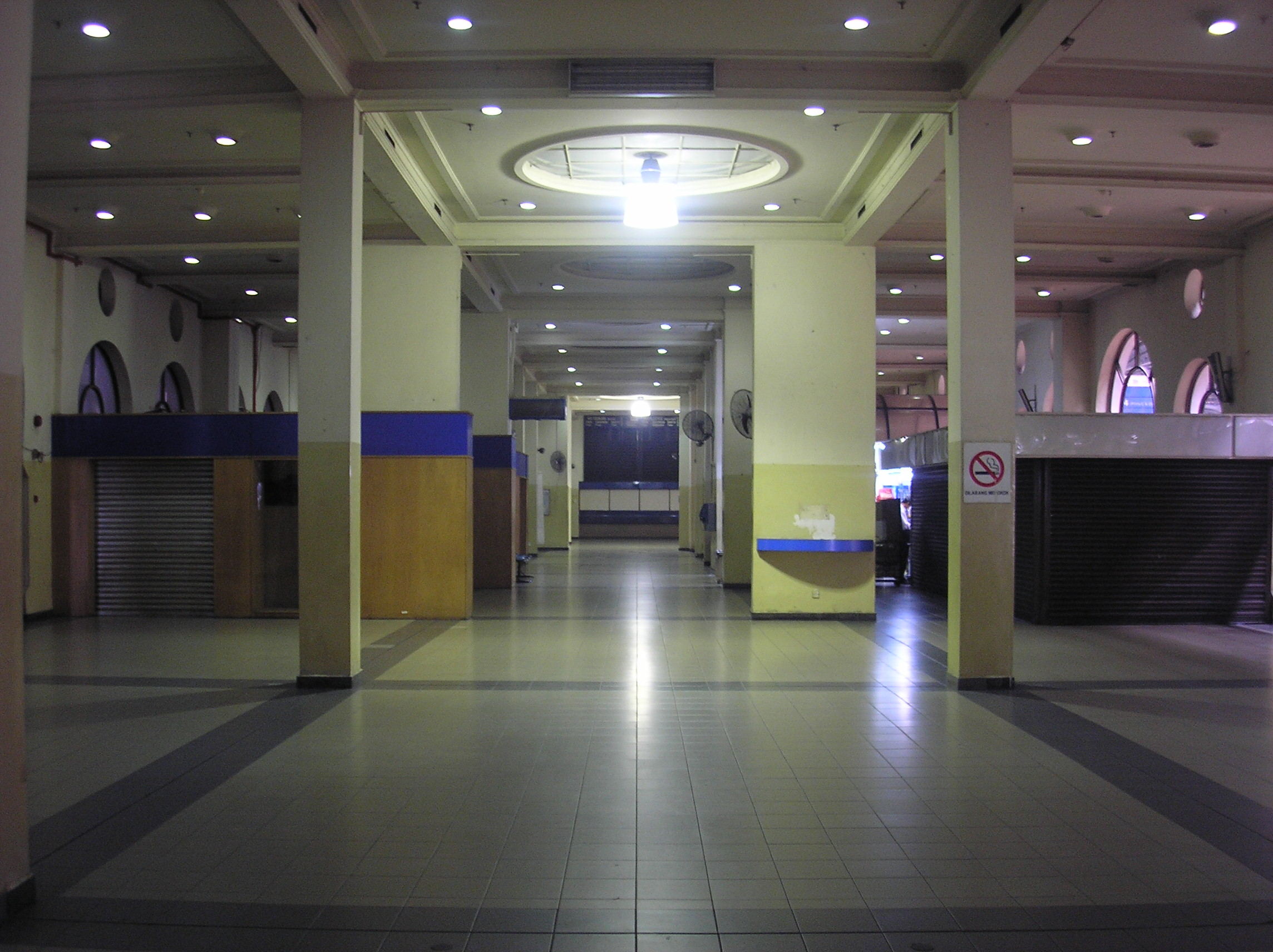 The main hall of the Kuala Lumpur railway station (Rawang-Seremban/Sentul-Port Klang), Kuala Lumpur, Malaysia.